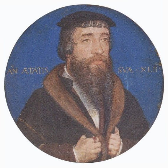 Portrait Miniature of William Roper. Bodycolour on vellum mounted on card, 4.5 cm, Metropolitan Museum of Art, New York.